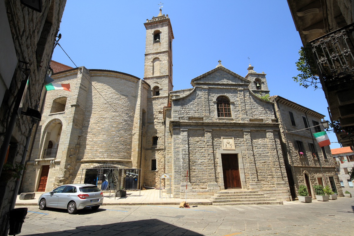 Santa Croce church, Tempio Pausania, Sardinia, Italy